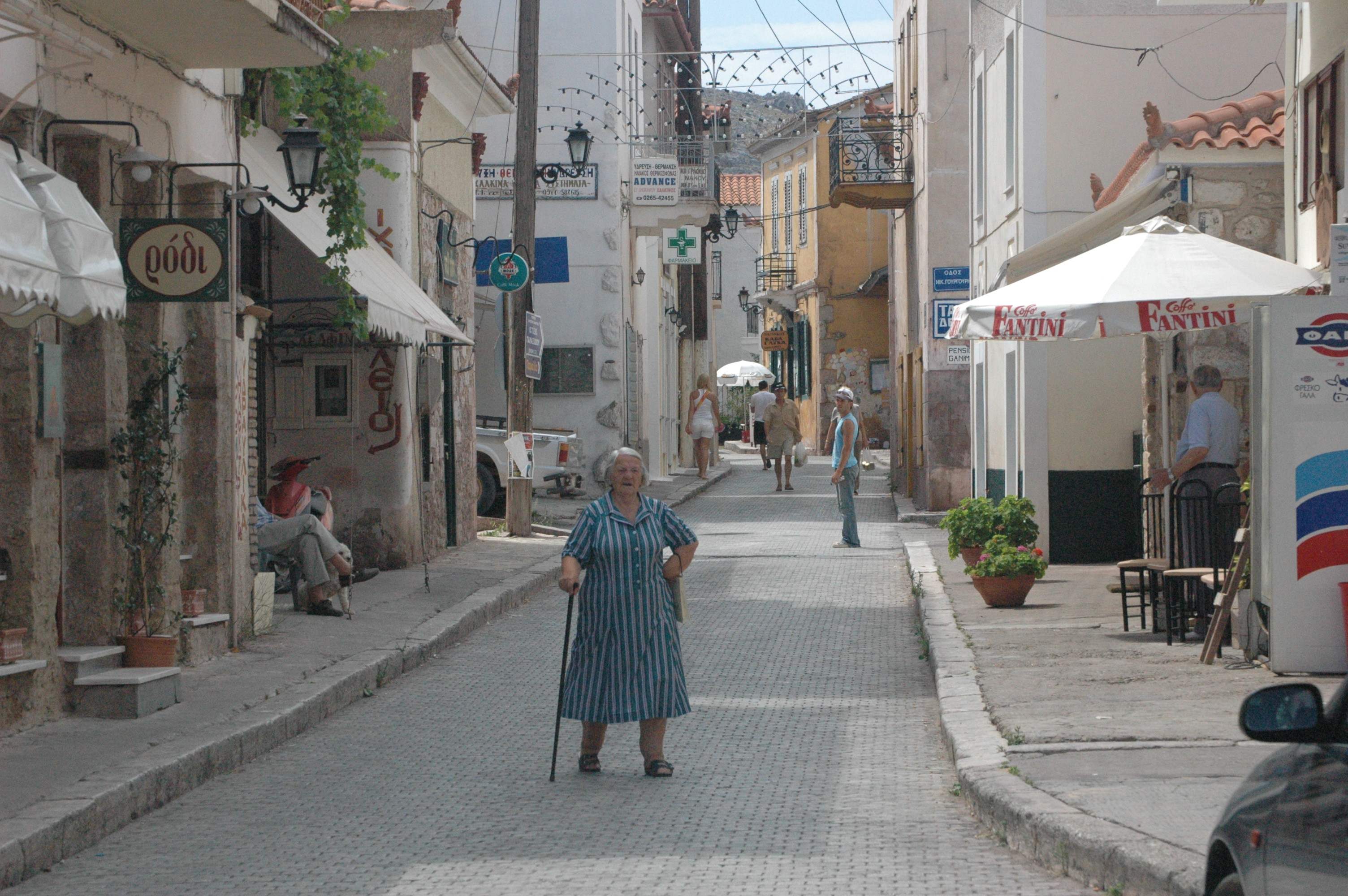 Galaxidi Main Street